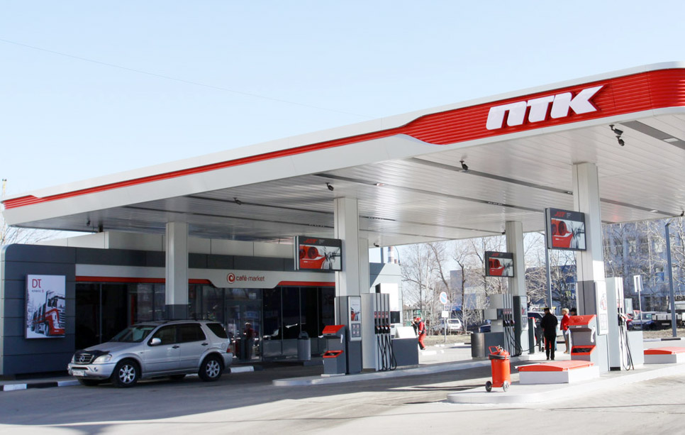 АЗС ПТК